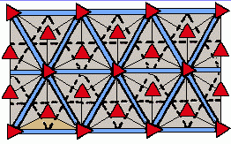 Cell diagram for wallpaper group type p31m. Clipped version of Wallpapercellp31m.gif.